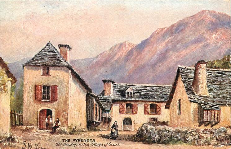 The Pyrénées: Old Houses in the Village of Goust (postcard published by Raphael Tuck & Sons)